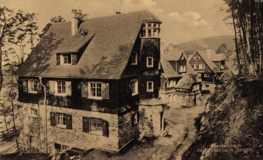 Odenwaldschule Ober-Hambach, Humboldthaus. Old Postard, ca. 1920. Collection Markus Wolter